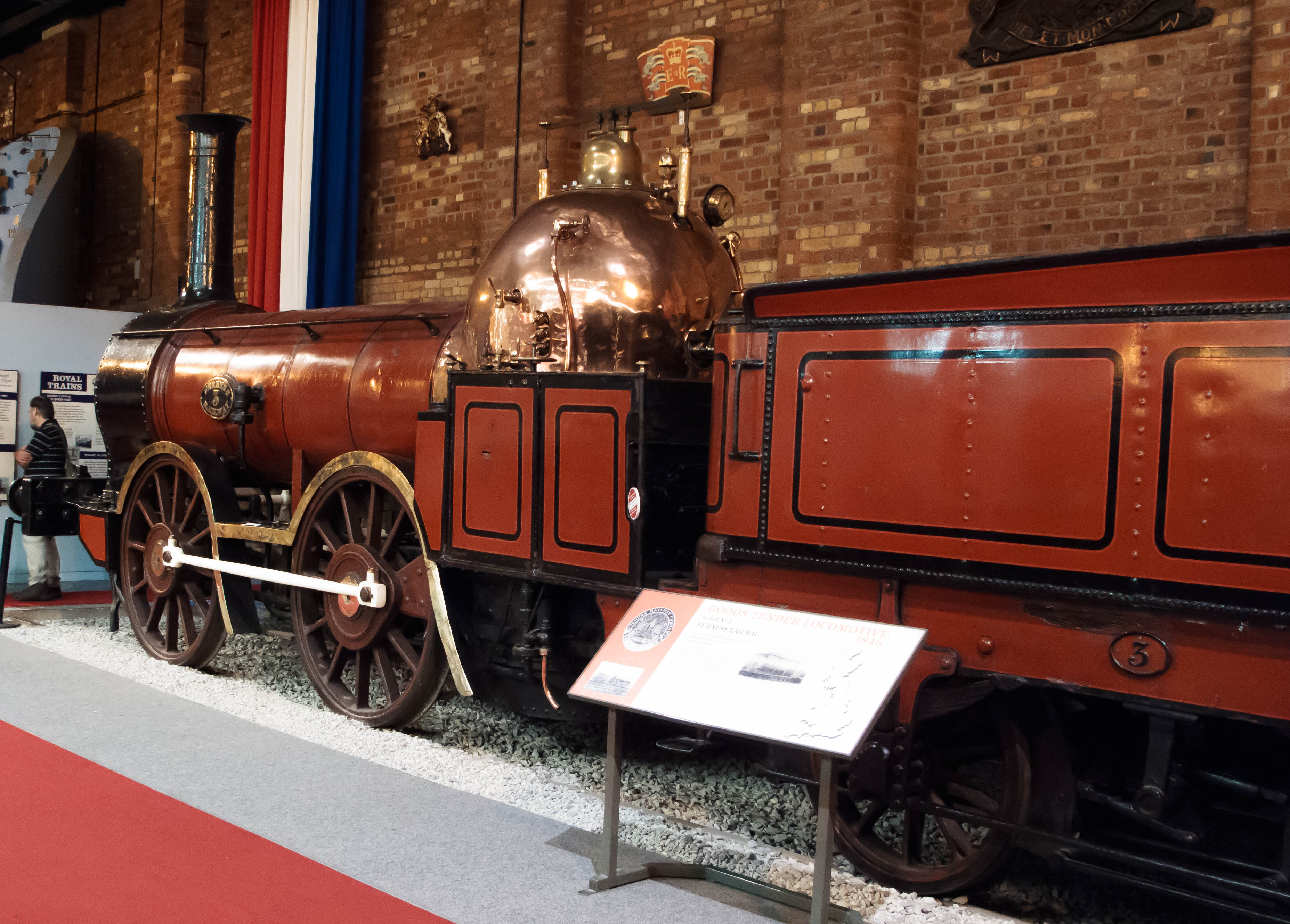 Dating from 1846, National Railway Museum, York. This is Furness Railway locomotive, No. 3.